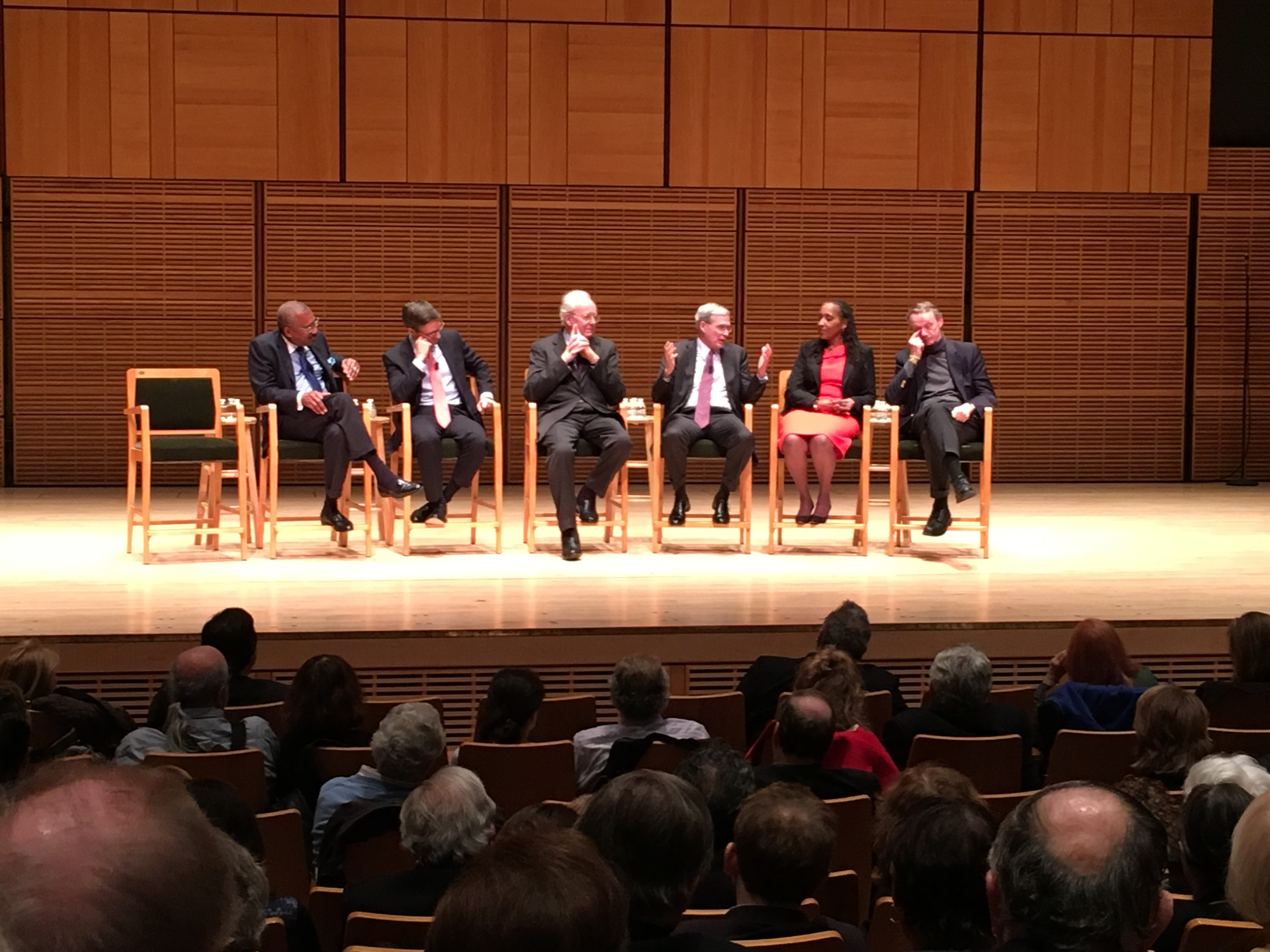 A program on Cornell's Contributions to American Foreign Policy, held at Zankel Hall within Carnegie Hall in New York. From left to right: Dwight Bush ’79, U.S. Ambassador to the Kingdom of Morocco; Derek Chollet ’93, Assistant Secretary of Defense for International Security Affairs from 2012 to 2015; Walter LaFeber, Andrew H. and James S. Tisch Distinguished University Professor Emeritus and a Stephen H. Weiss Presidential Fellow in the Department of History; Stephen Hadley ’69, National Security Advisor to President George W. Bush from 2005 to 2009; Makila James ’79, U.S. Ambassador to the Kingdom of Swaziland from 2012 to 2015; and Peter J. Katzenstein, Walter S. Carpenter, Jr. Professor of International Studies in the Department of Government.